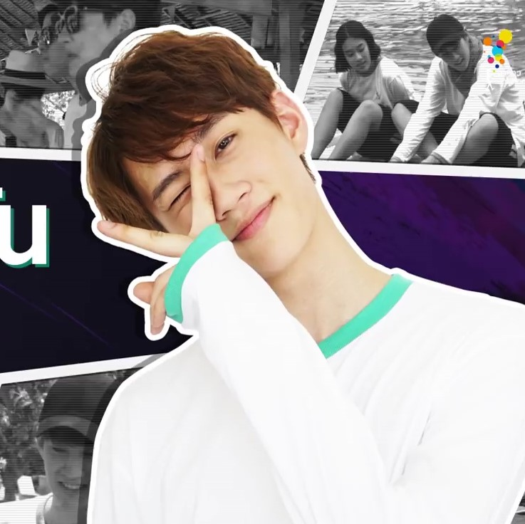 Chonlathorn Kongyingyong, screen capture from promotional video for Game of Teens